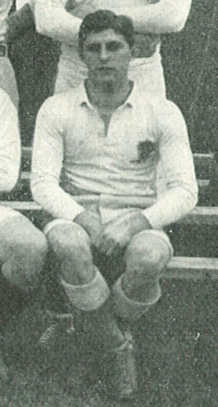 England rugby union international, Cyril Lowe, taken prior to the France-England match for the Five Nations Championship. He is seated alongside his England team mates.